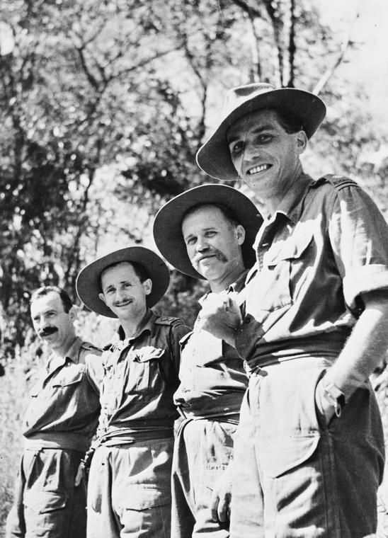 Imperial War Museum Photograph Archive Collection Polish officers serving with the 1st Battalion, Gambia Regiment (6st West African Infantry Brigade, 81st West African Division) during the Third Arakan Campaign. Left to right: Lieutenant Adam Grzywacz, D and X Companies; Lieutenant Wiesław Bulkowski (or Bułkowski), Mortar Platoon; Captain Jan K. Żeleźnik MC, Mortar Platoon and A Company; Major Stanisław Lisiecki, the CO of the B Company.